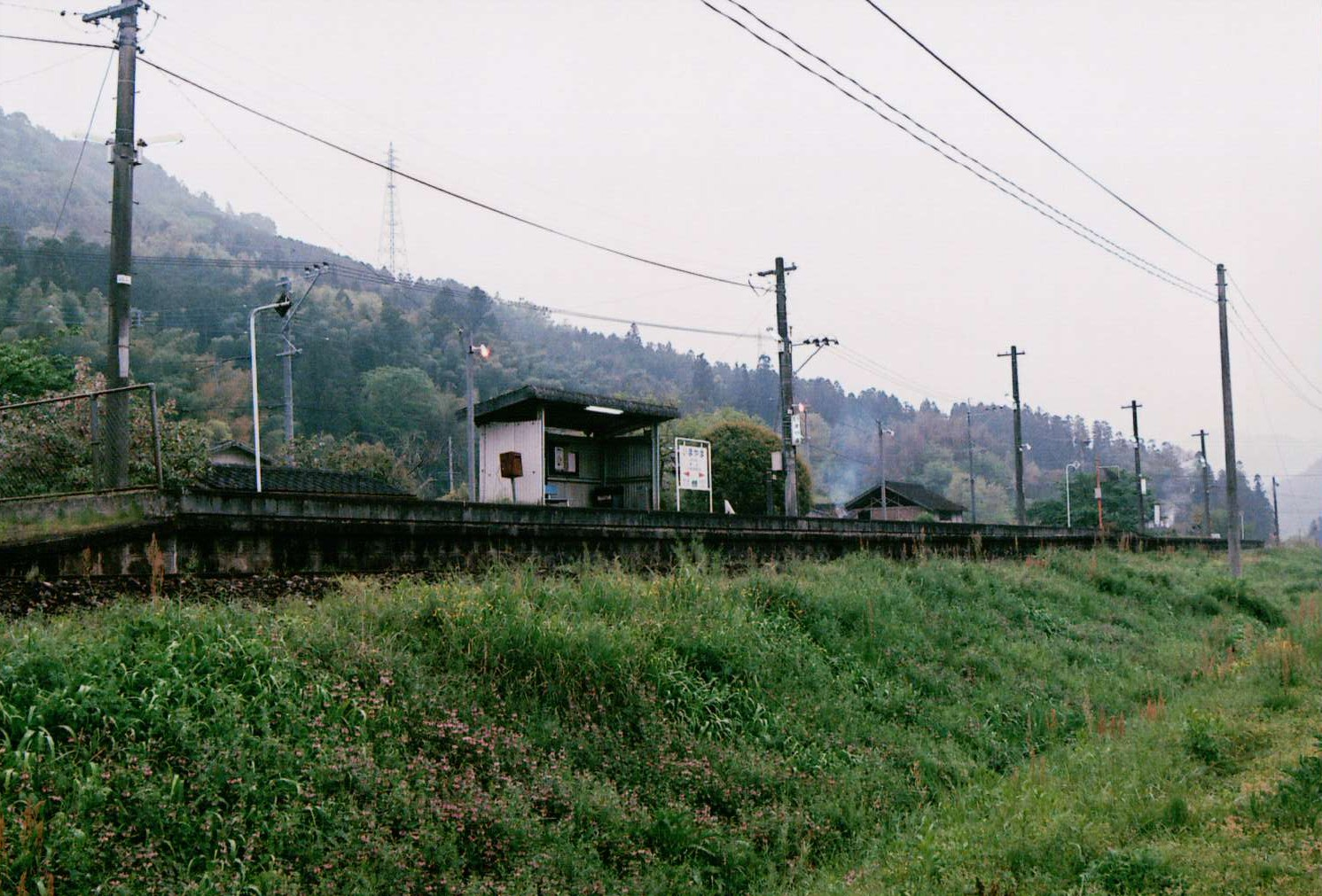 Hita-Hikosan Line Imayama Station